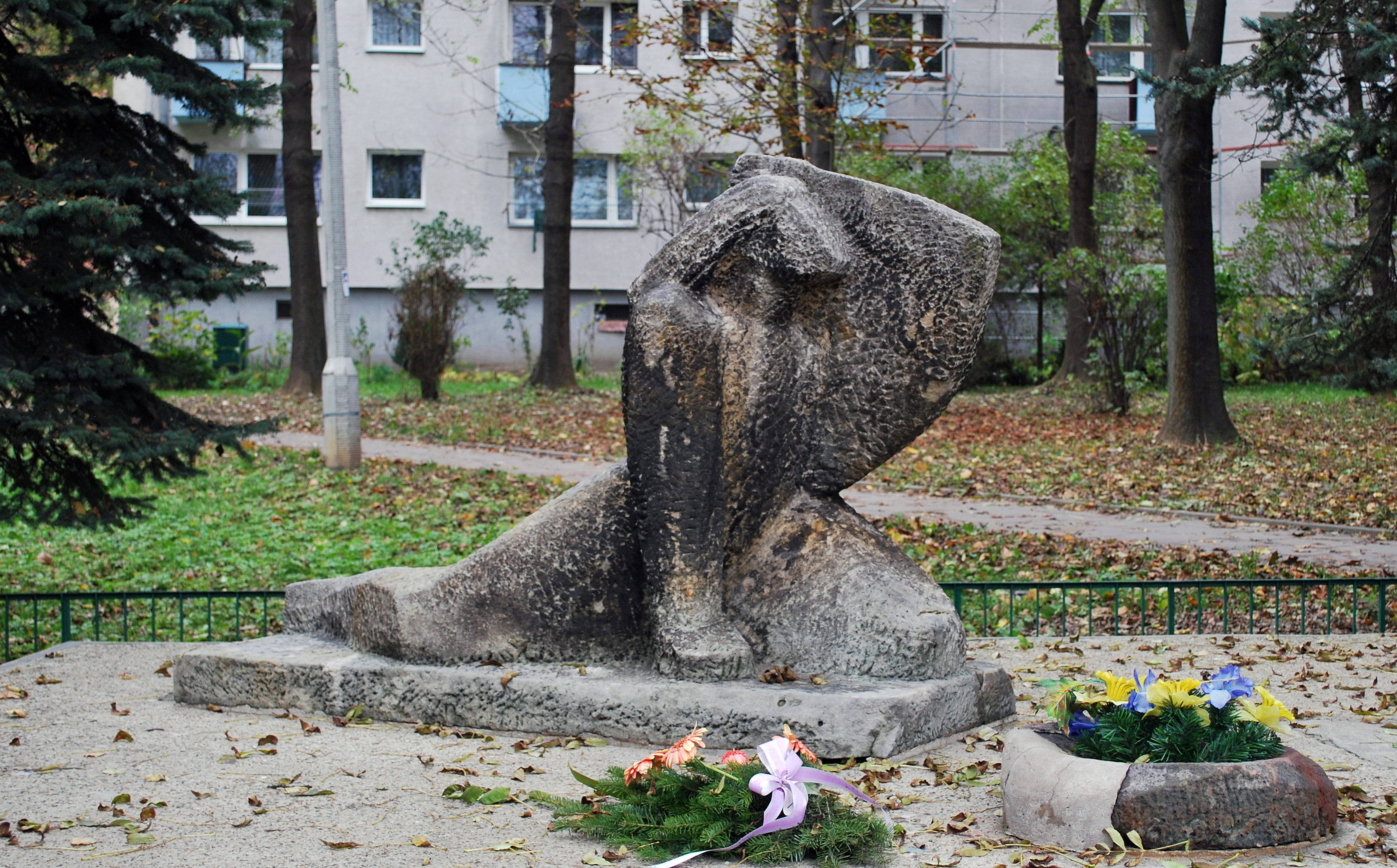 World War II Memorial-Execution in Grebalow January 29, 1944 ,Kocmyrzowska street,Nowa Huta,Krakow,Poland